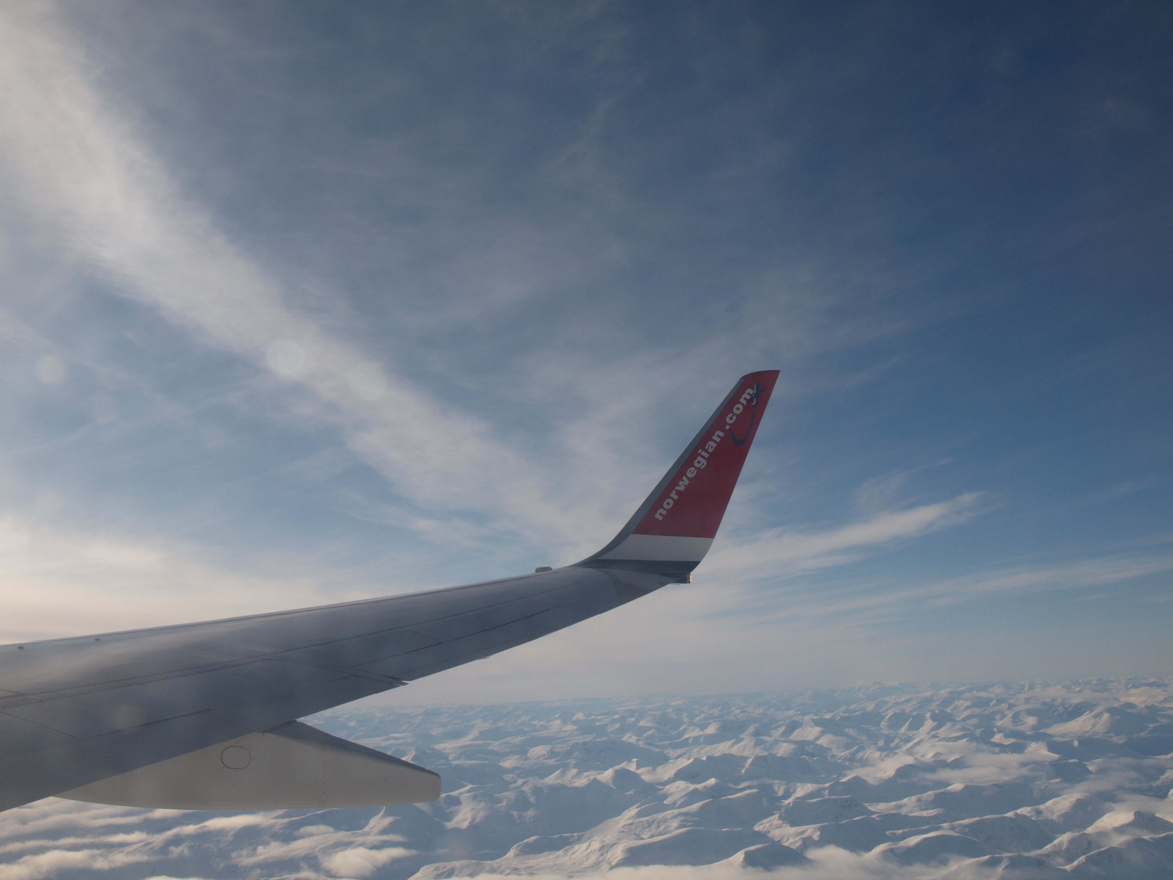 Norwegian Air Shuttle in 2010